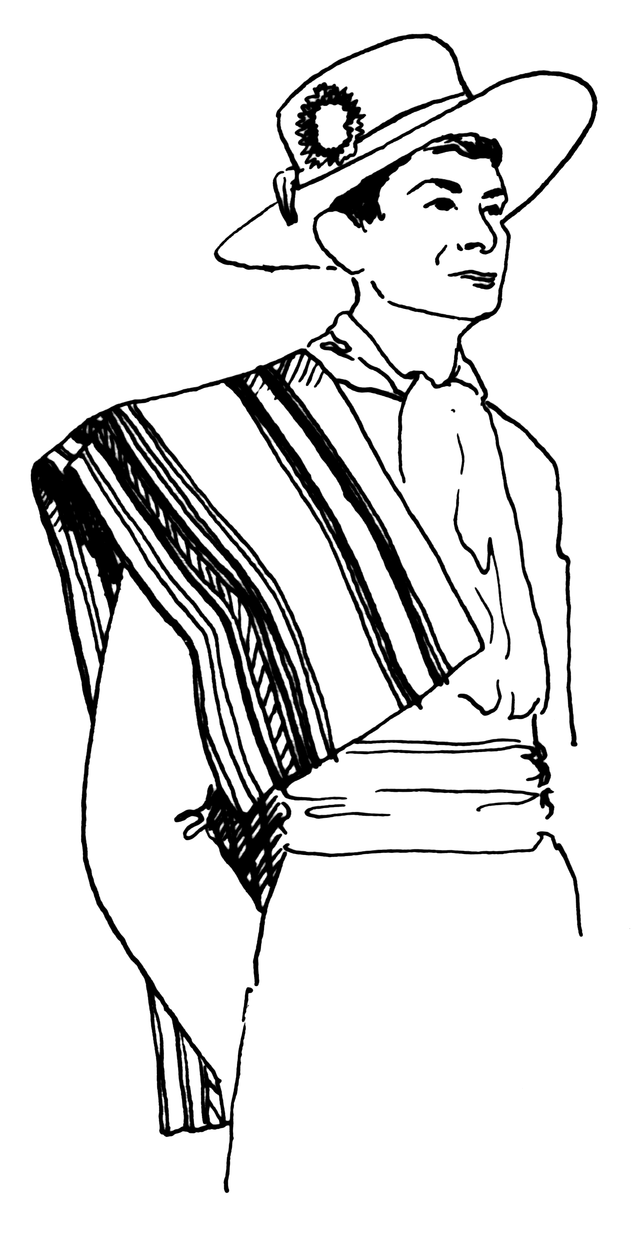 Line art drawing of a serape